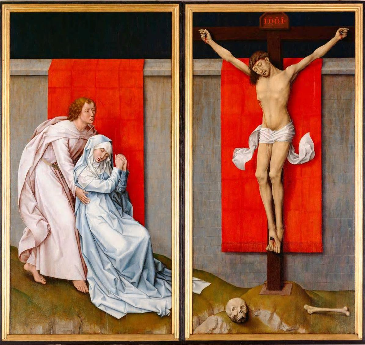 Crucifixion Diptych (c. 1460) by Rogier van der Weyden, John G. Johnson Collection, Philadelphia Museum of Art.